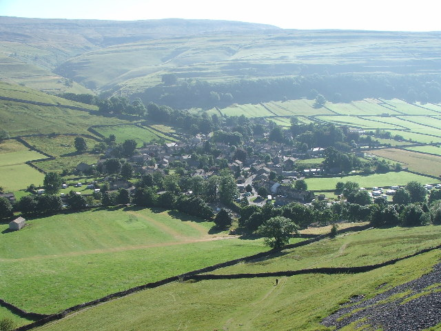 Kettlewell, Wharfedale, Y Dales.